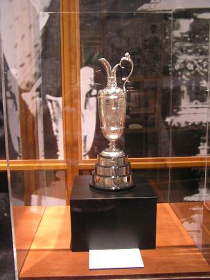 World Golf Village (WGV), World Golf Hall of Fame, St. Augustine, Florida has a Claret Jug replica that the winner of the Open Championship receives.